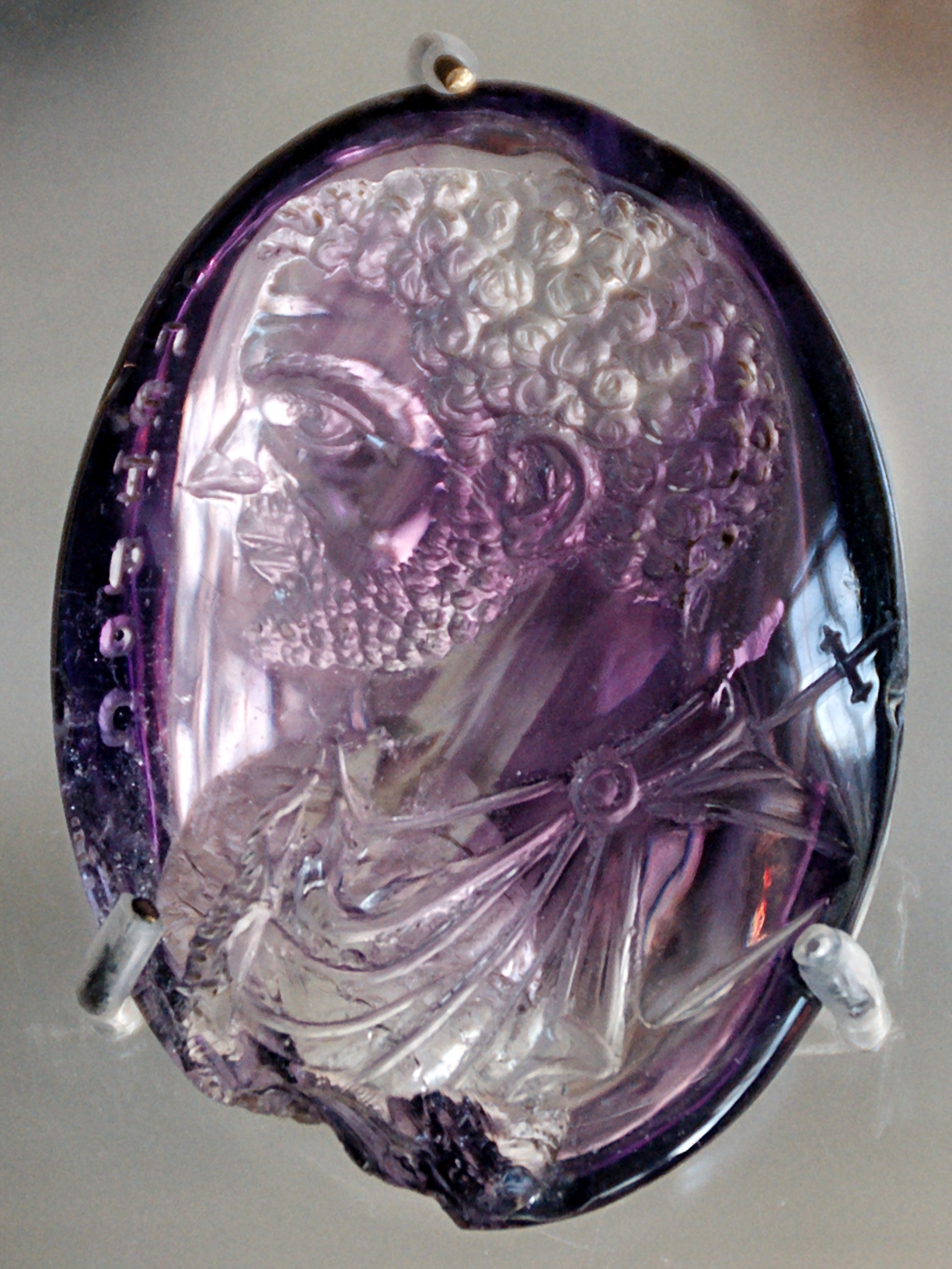 Portrait of Roman Emperor Caracalla; inscription in Greek letters O IIETPOC and cross added at the Byzantine period in order to transform the portrait in that of St. Peter. Amethyst intaglio, ca. 212 CE. From the treasury of the Sainte-Chapelle in Paris.